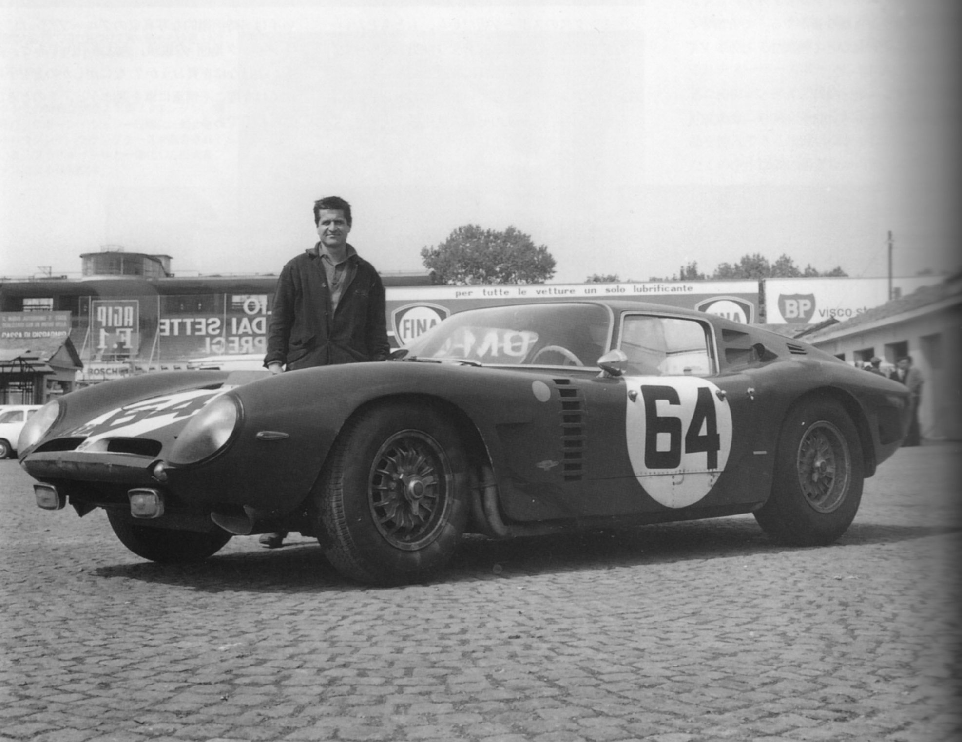 Ing. Giotto Bizzarrini with his newly designed and built Iso Grifo A3/C at Monza in northern Italy. This was probably the 1000km Monza on 25 April 1965, where entry #64 ended in 5th place driven by Pierre Noblet and Mario Casoni (not in this picture).[1] This may have been chassis B-0207.[2][3]